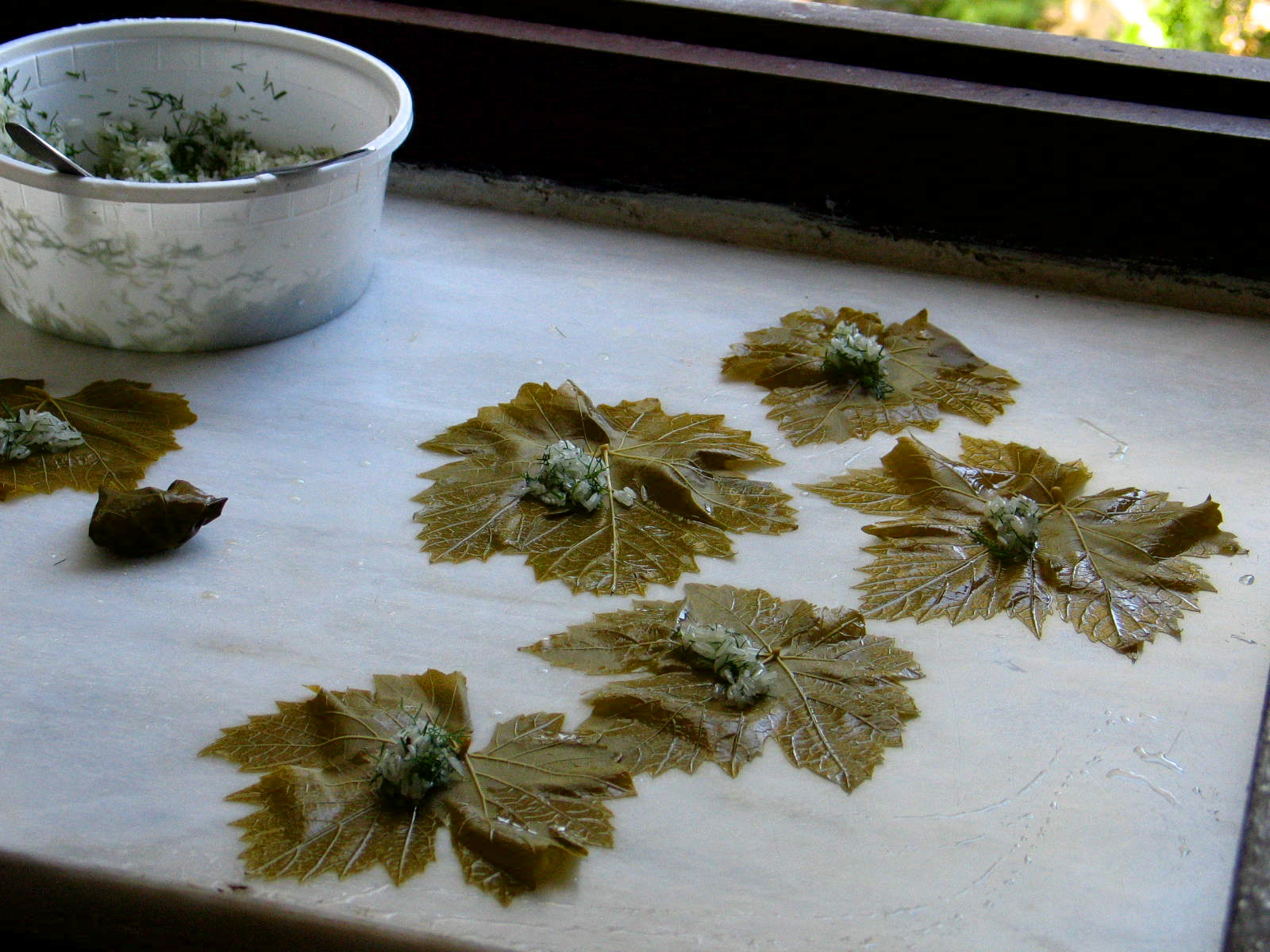 greek dolmades, rice in wine leafes